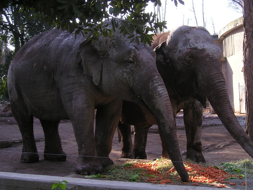 Indian elephants in Roman Zoo